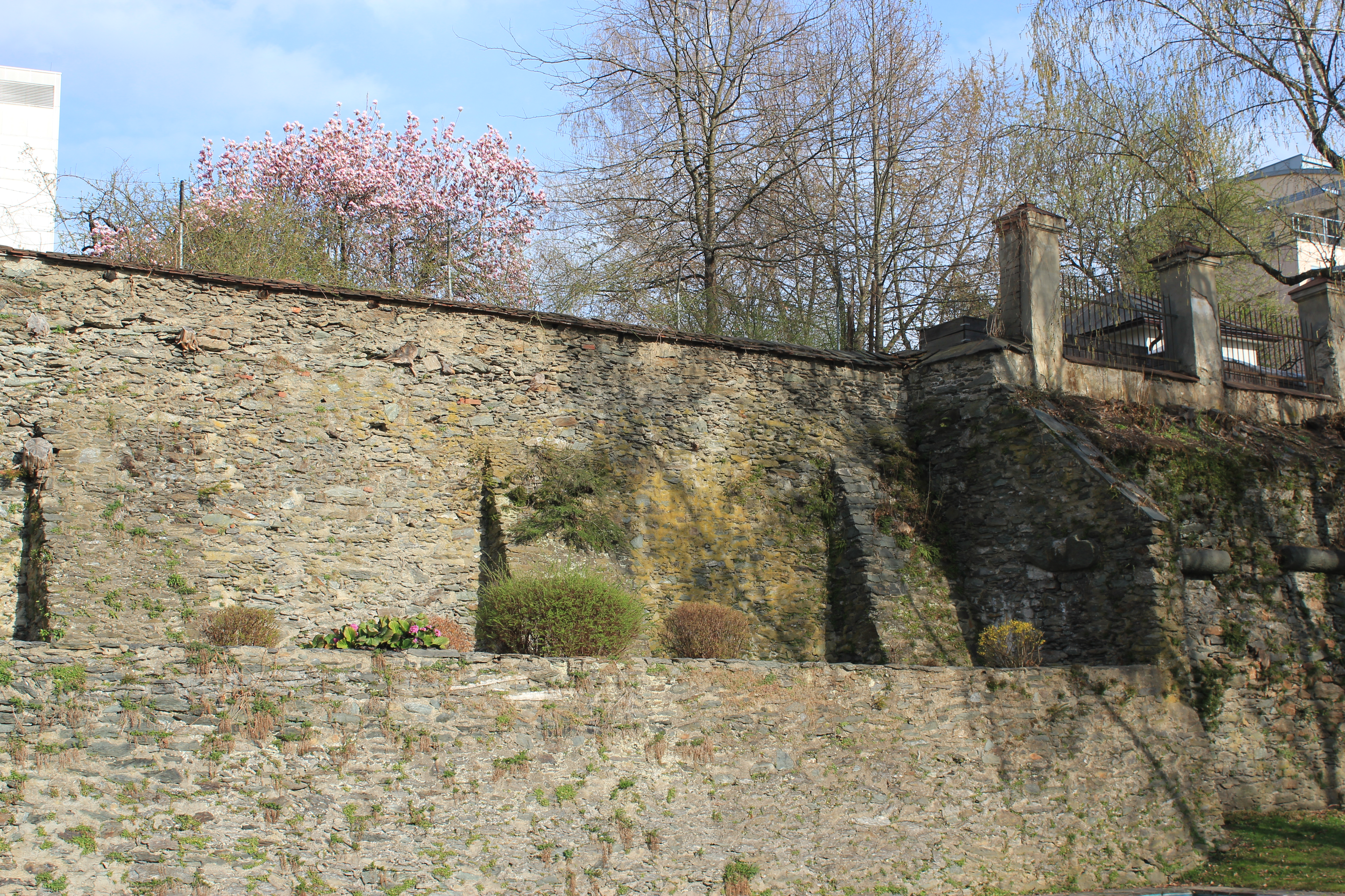 Fortification wall in Klagenfurt